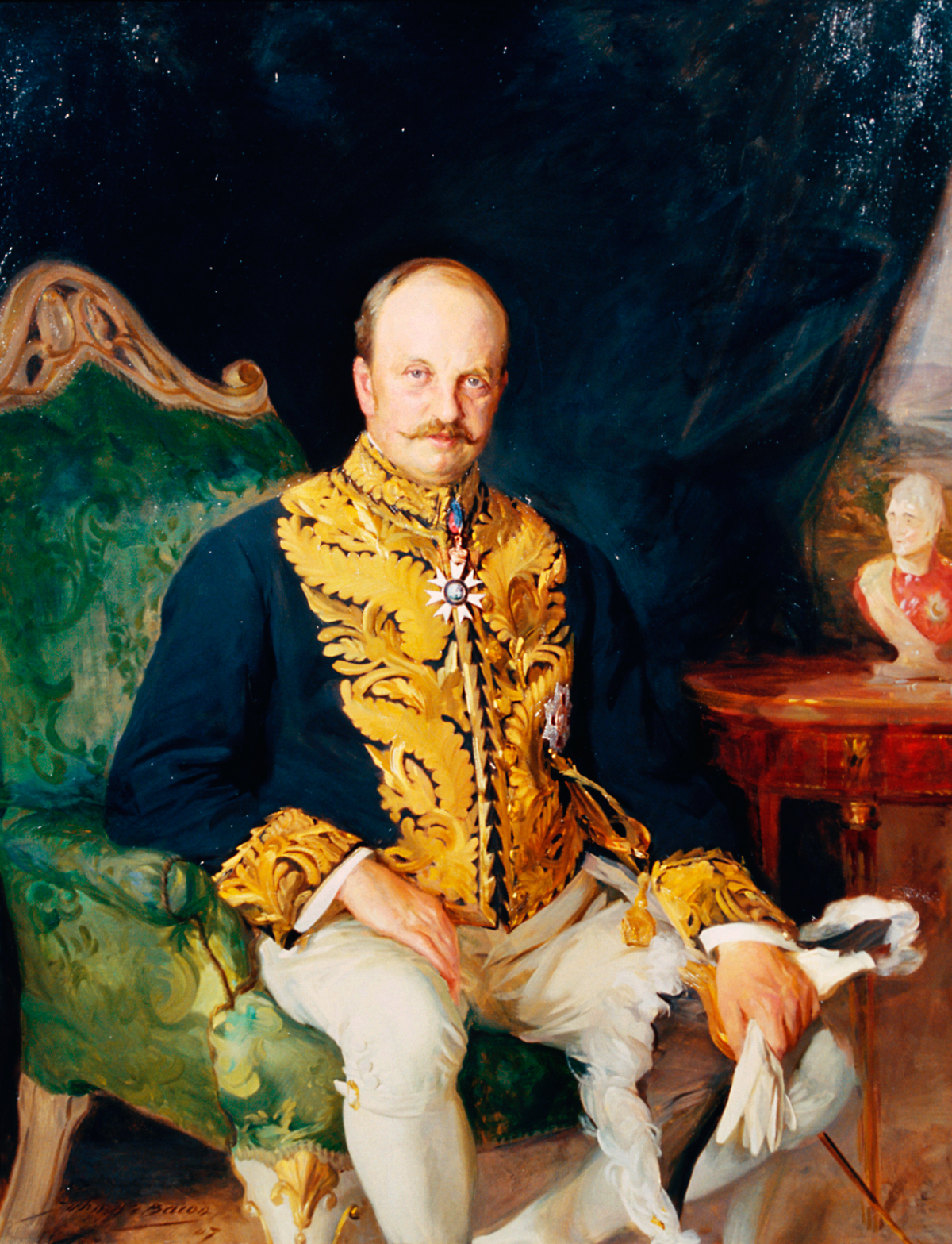 Sir James Beethom Whitehead, KCMG, son of Robert Whitehead and first father-in-law of Georg Johannes von Trapp.